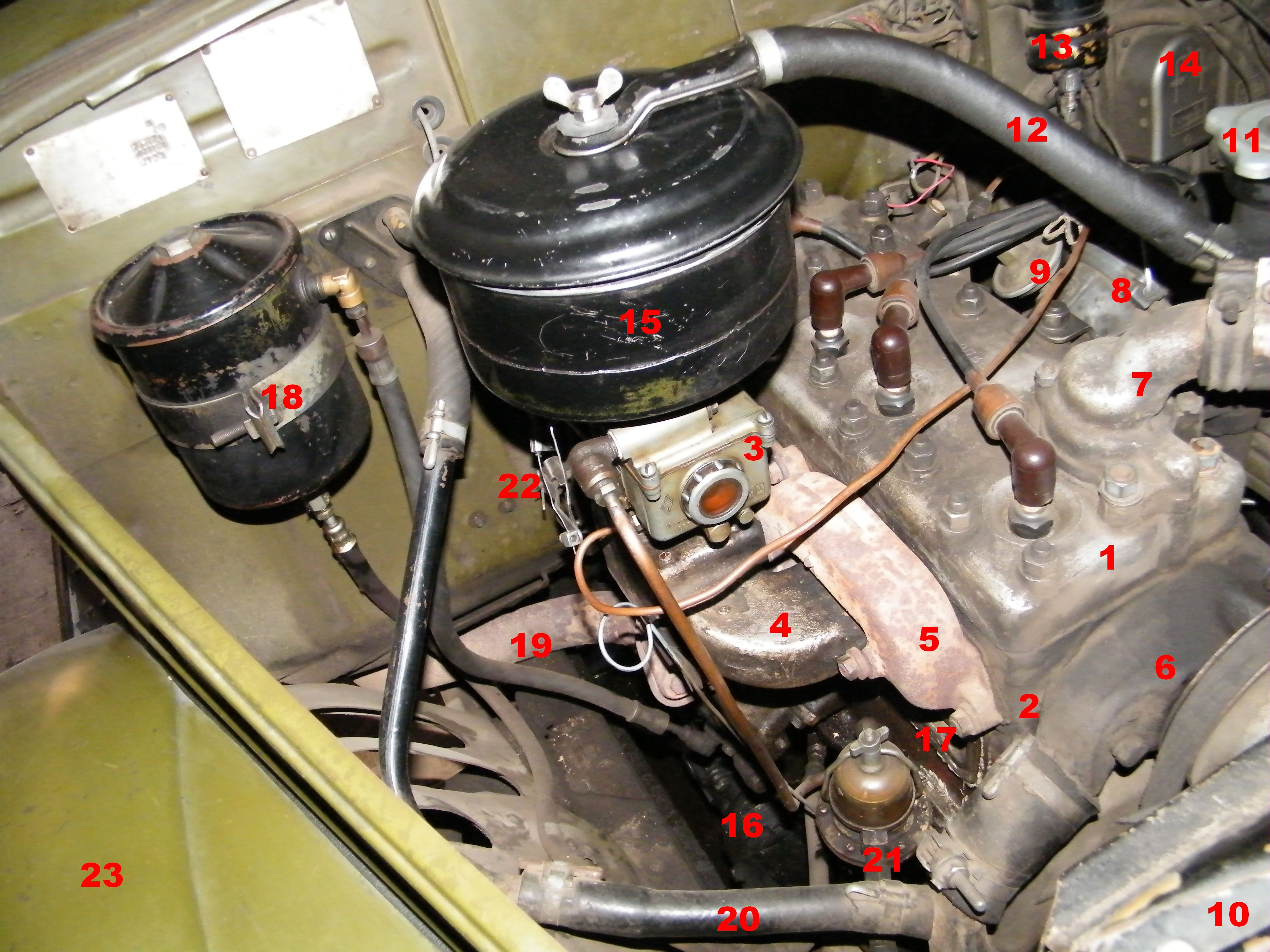 Двигатель ГАЗ-69